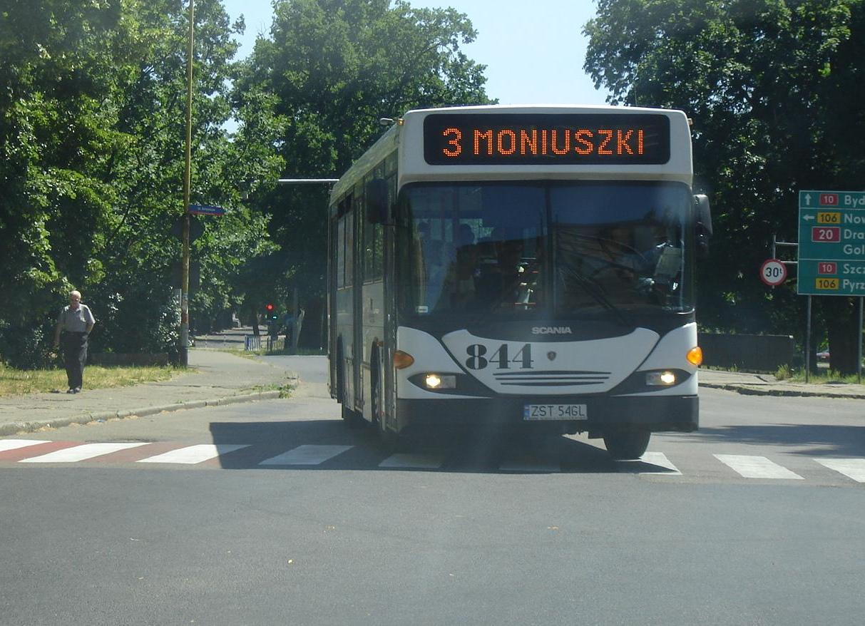 Scania L94UB bus (#844) in Stargard Szczeciński, Poland. Year built 2002, MZK Stargard Szczeciński operator.